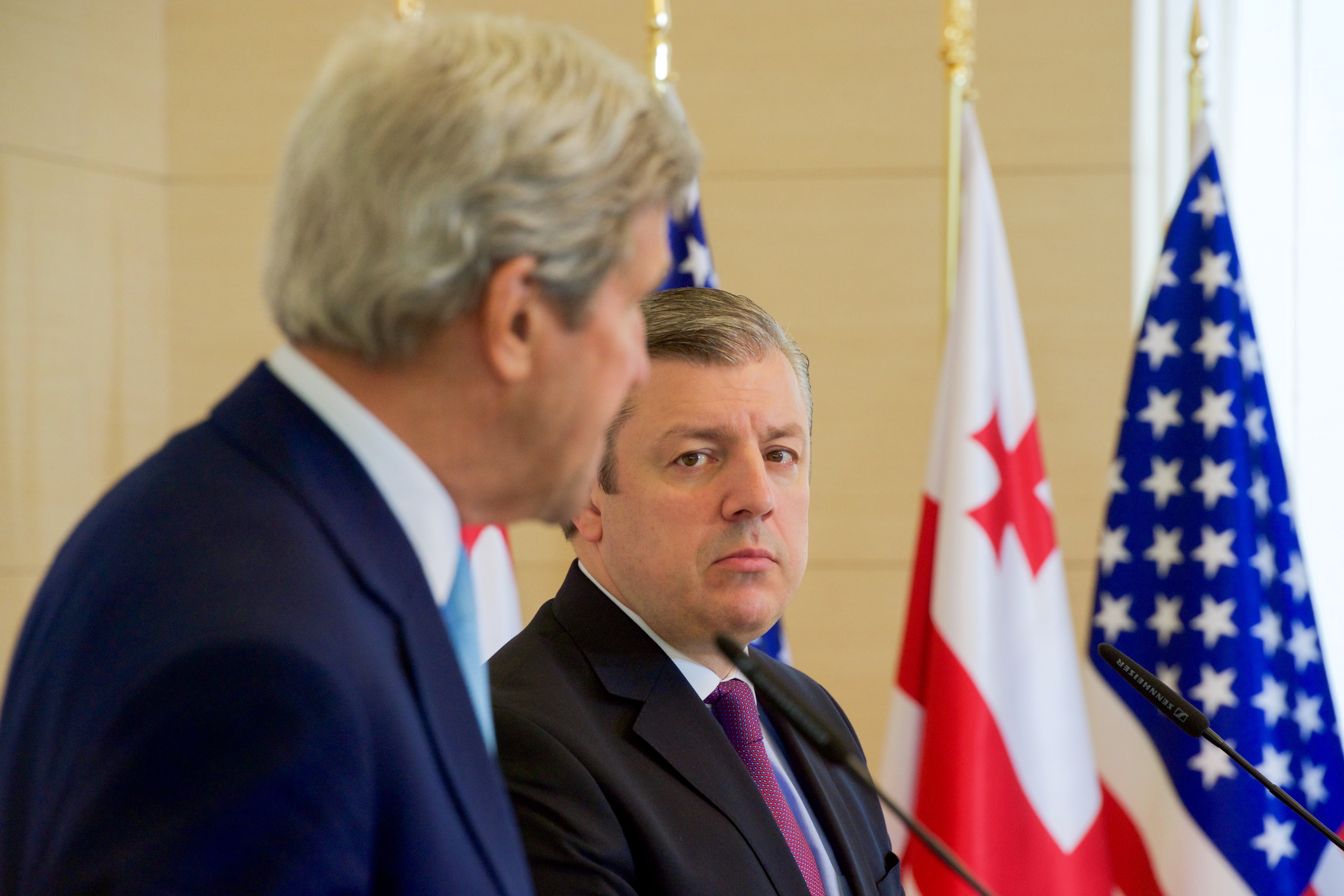 Georgian Prime Minister Giorgi Kvirikashvili listens as U.S Secretary of State John Kerry addresses reporters as the two hold a joint news conference on July 6, 2016, at the Chancellery in Tbilisi, Georgia, following their attendance at the U.S.-Georgia Strategic Partnership Commission Meeting and a conversation between the Secretary and Georgian Foreign Minister Mikhail Janelidze. [State Department Photo/ Public Domain]